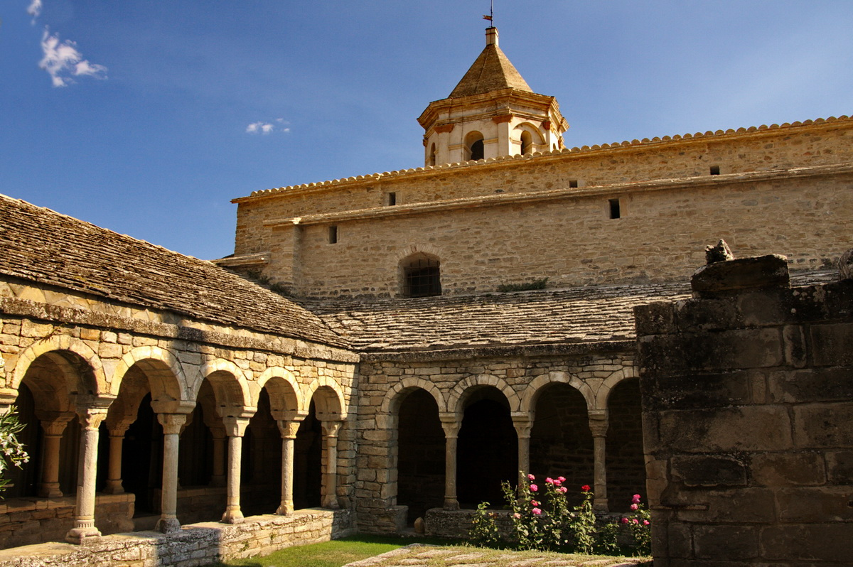 Cloister of the San Vicente Cathedral, in Roda de Isábena, Huesca, Spain.